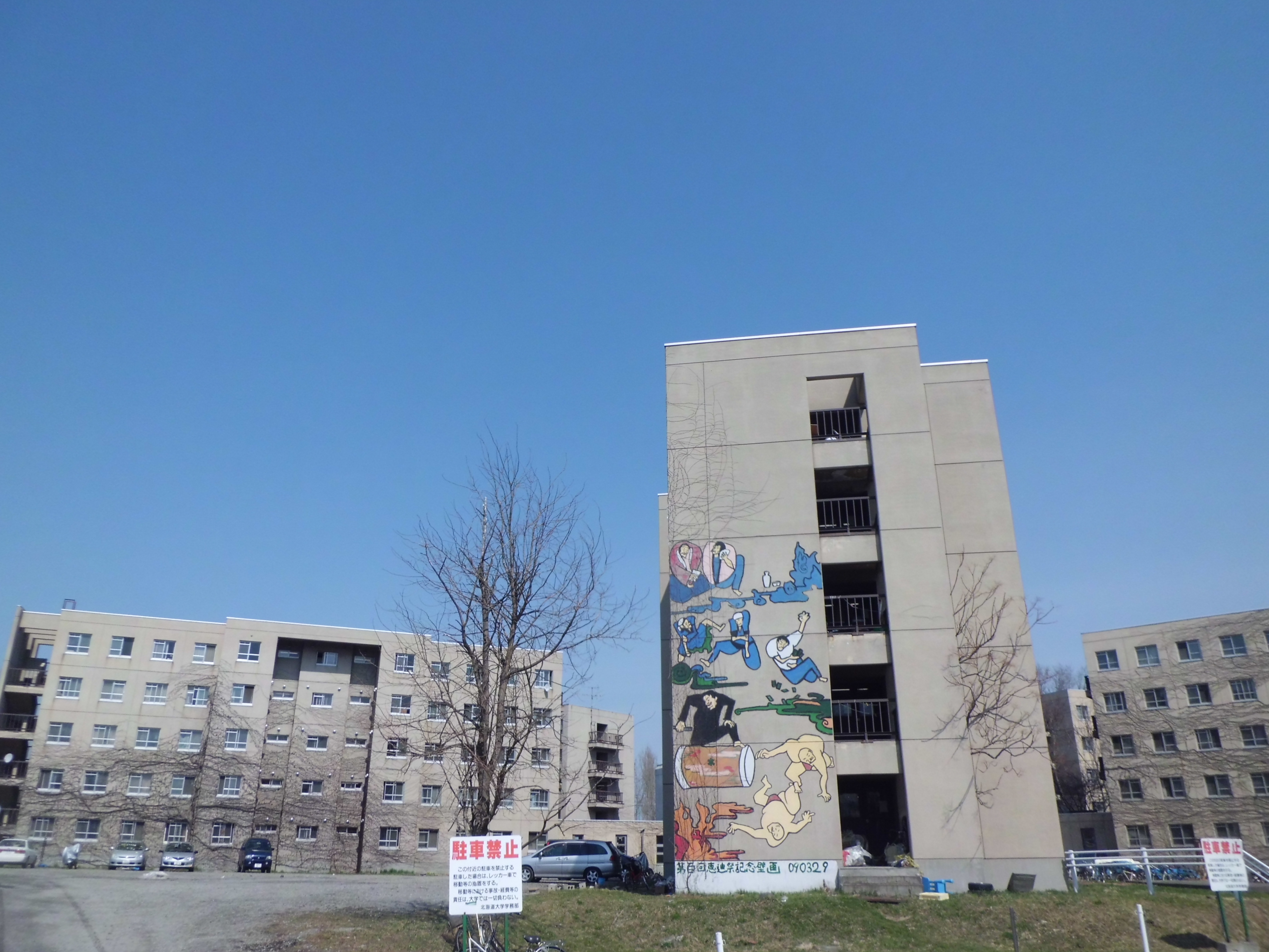 Back entrance of Keiteki Dormitory